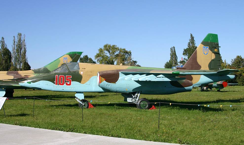 Took this image at aviasvit expo, 2002.